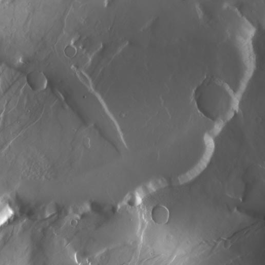 Near-infrared image from the framing camera on NASA's Dawn taken near the point of closest approach to Mars on Feb. 17, 2009, during Dawn's gravity assist flyby. The image was taken for calibration purposes and shows a portion of northwest margin of Tempe Terra, Mars. The scene is illuminated by the light of dawn, and traces of fog appear in the lower portion. The area covered by the image is about 55 kilometers (34 miles) across.